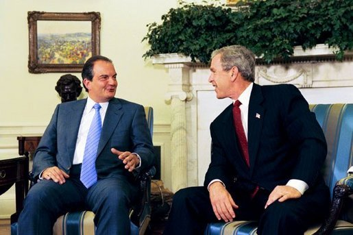 President George W. Bush meets with Prime Minister Kostas Karamanlis of Greece in the Oval Office Thursday, May 20, 2004. White House photo by Joyce Naltchayan